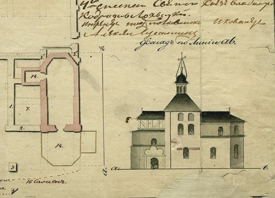 Church of the Tithes, Kyiv.